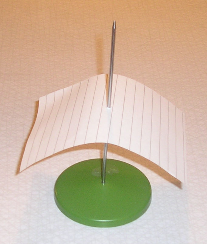 A spindle